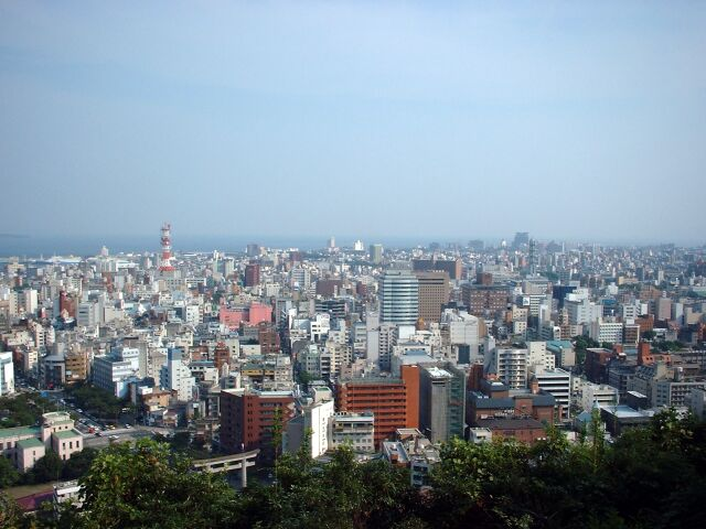 View of central Kagoshima City, Kagoshima Prefecture, Japan, from Shiroyama